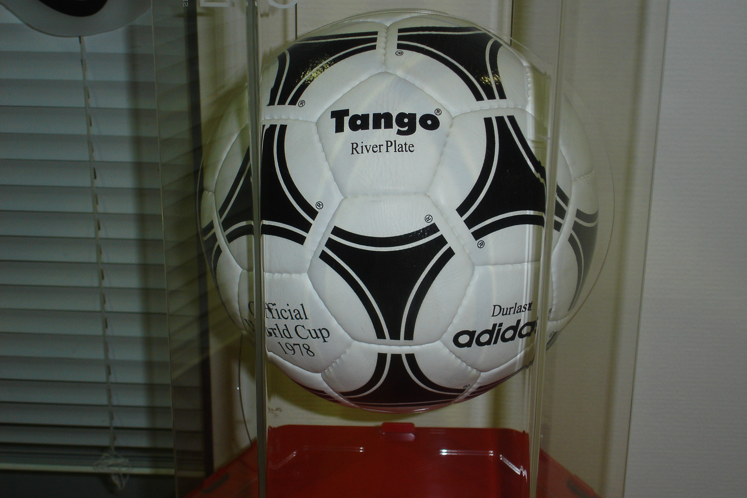 Adidas Tango - the official match ball of 1978 FIFA World Cup in Argentina